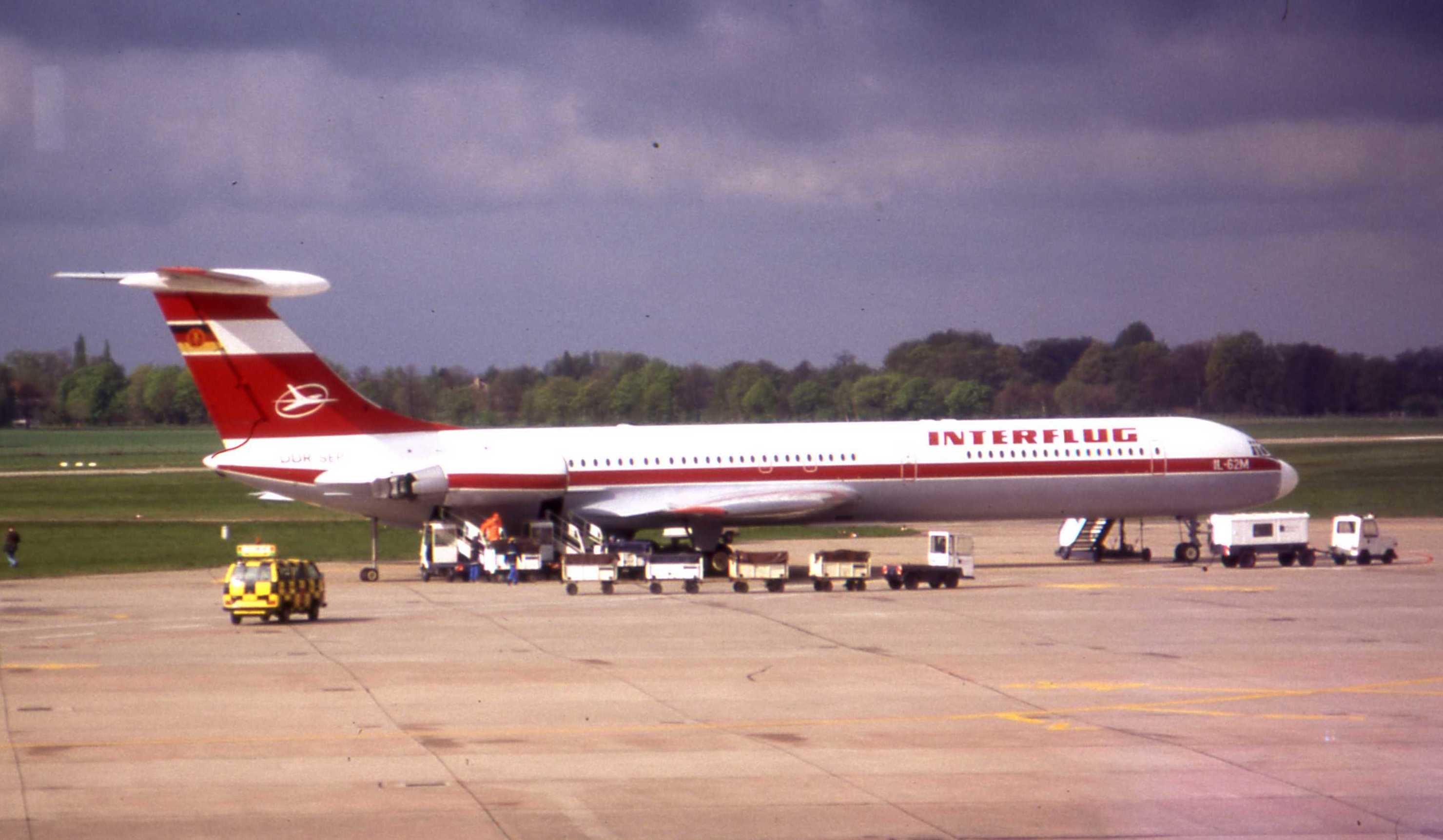 Taken through a glass window at Hannover Airport